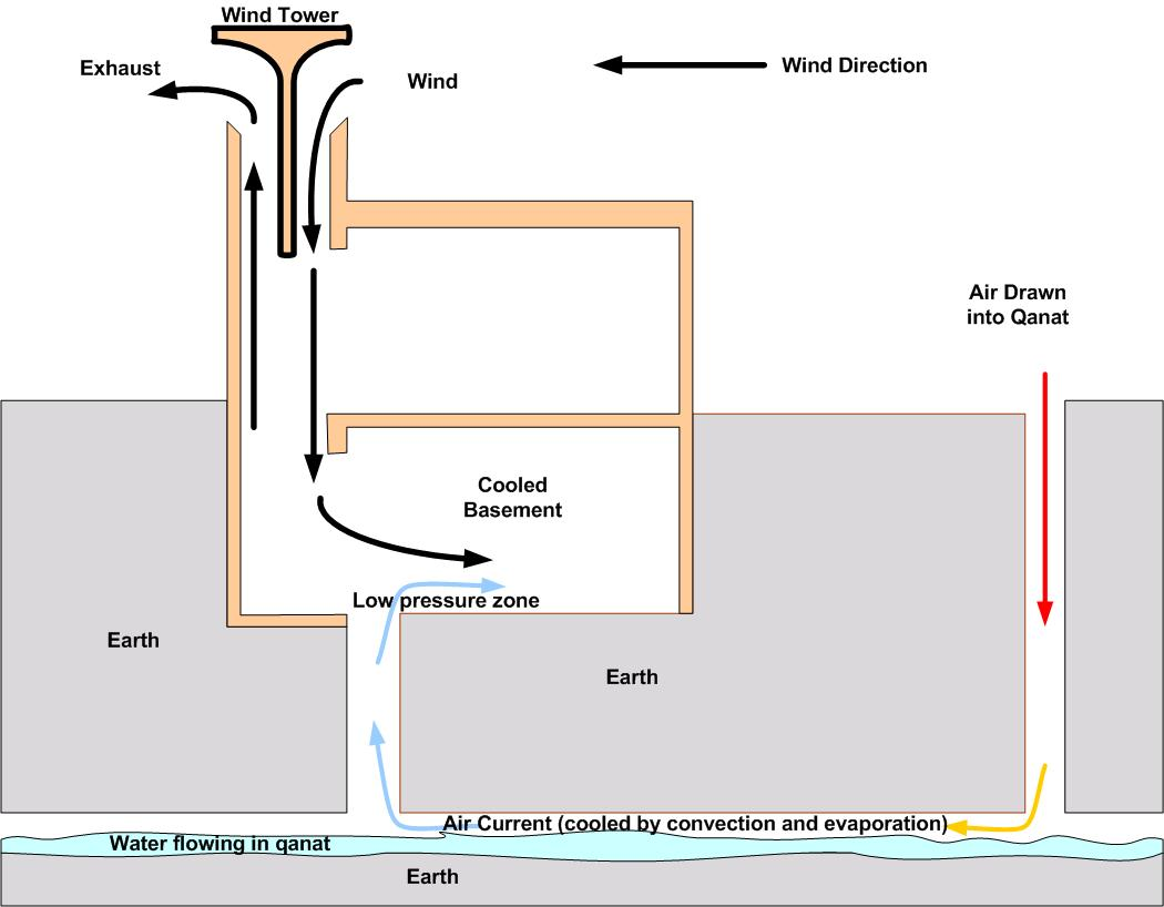 Illustration of use of wind tower and qanat for cooling. Illustration based on concepts as discussed in article by Bahadori, M. N. titled "Passive Cooling Systems in Iranian Architecture" Scientific American, February 1978, pages 144-154. Williamborg 04:35, 26 June 2006 (UTC)